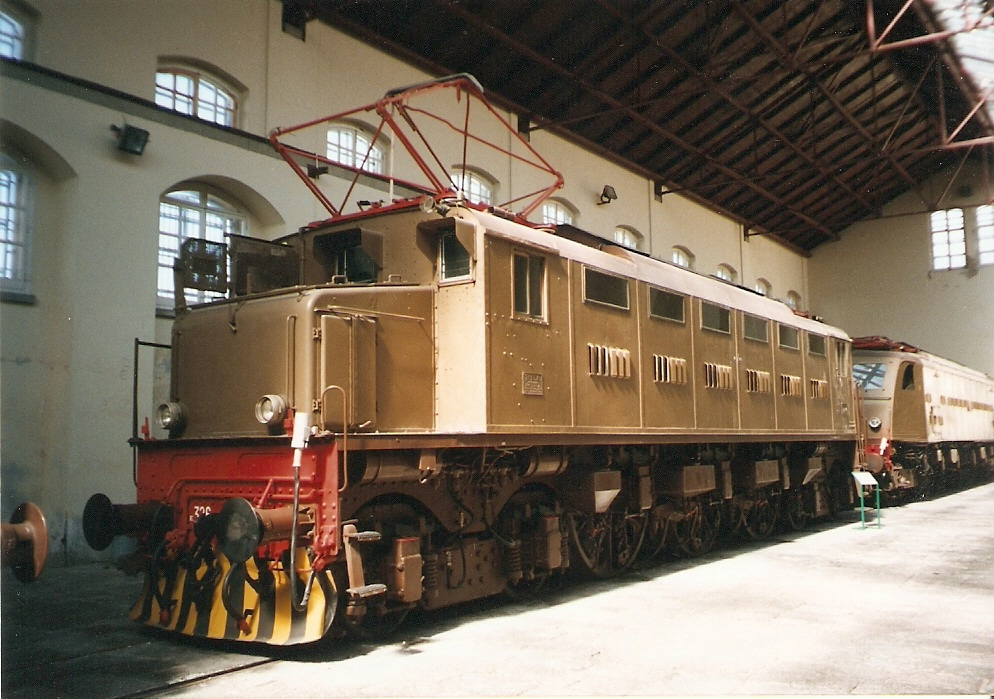 FS E.326.004 in Pietrarsa museum (Breda 1932)